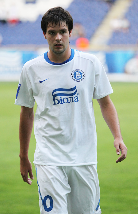 Yevhen Yevhenovych Shakhov